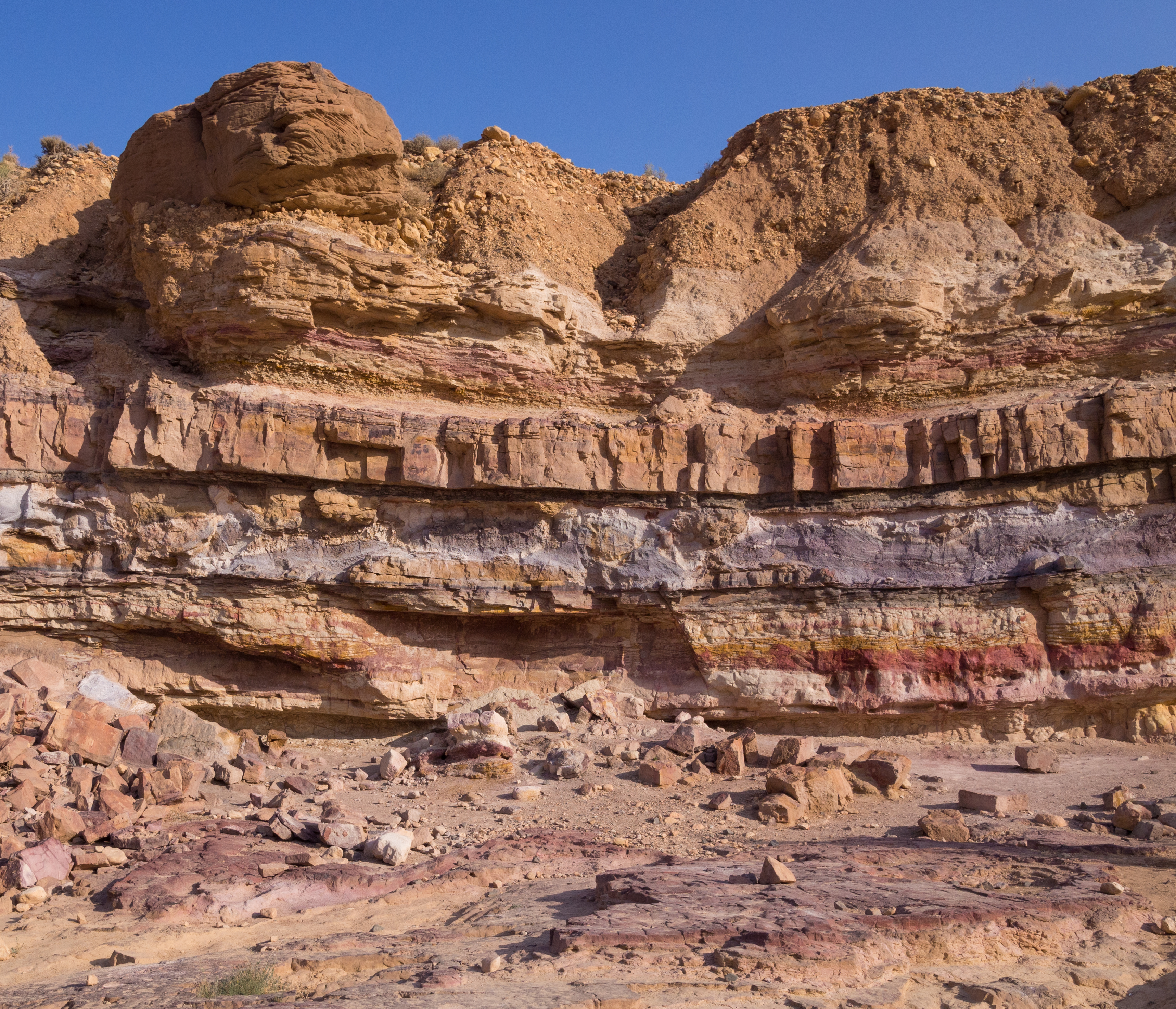 Colorful layers of sedimentary rock in Makhtesh Ramon, Israel.